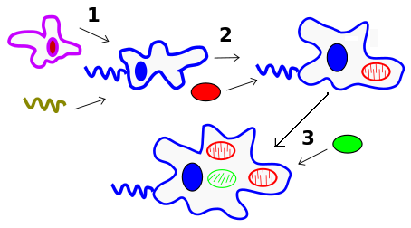 Serial Endosymbiosis Theory (SET)